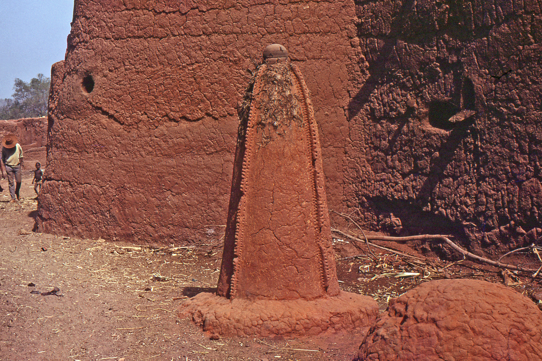 Animist altar. Bozo village, Mopti, Bandiagara, Mali. Capture Date 25-12-1972